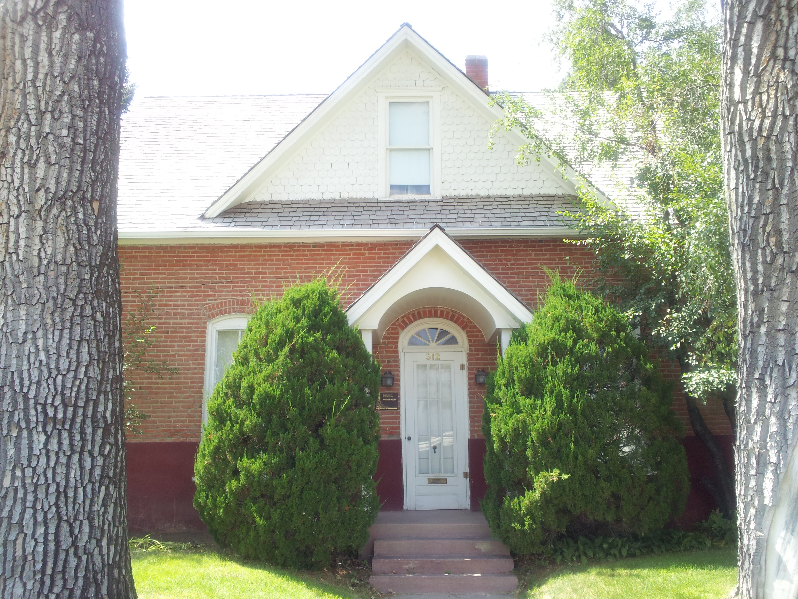 Holland House is a place on the National Register of Historic Places in Buffalo, Wyoming